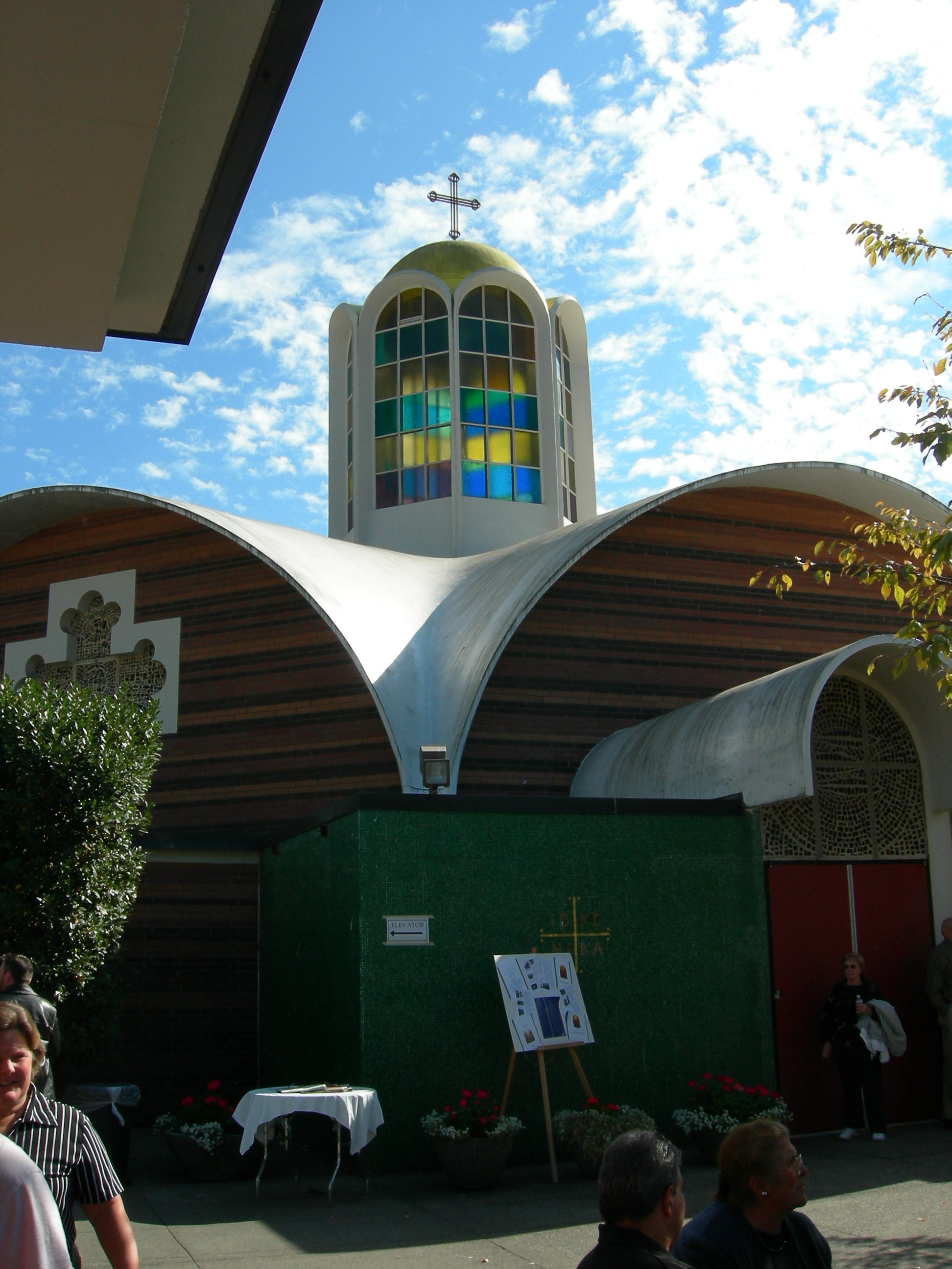 St. Demetrios Greek Orthodox Church (designed by Paul Thiry, constructed 1964–1968); site of the annual St. Demetrios Greek Festival, Seattle, Washington